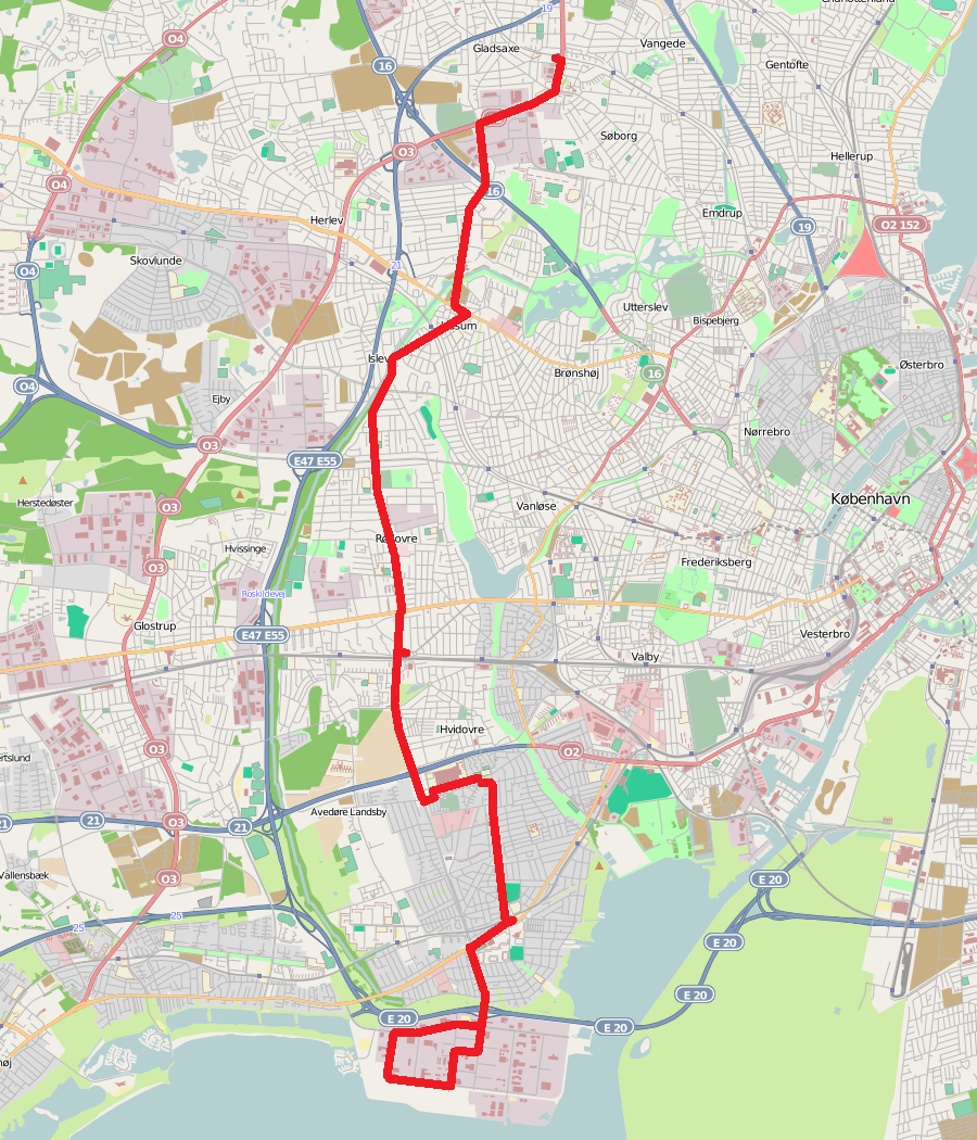 Map of Copenhagen bus line 200S between Buddinge Station and Avedøre Holme as of 30 January 2017.